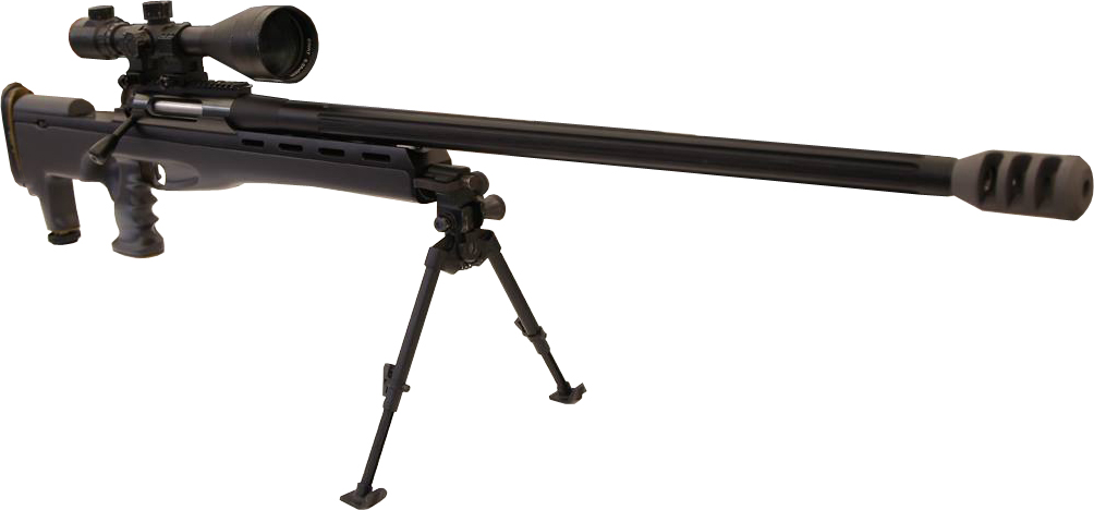 "Shatevari" sniper rifle. Photoshopped from photo I took on May 26th during Indepdendence Day.